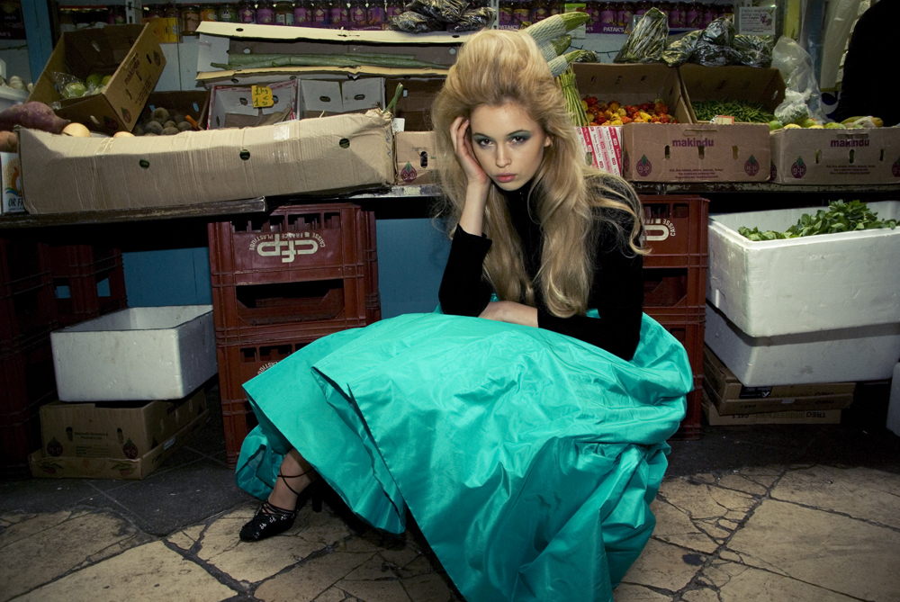 Model from Mademoiselle Agency